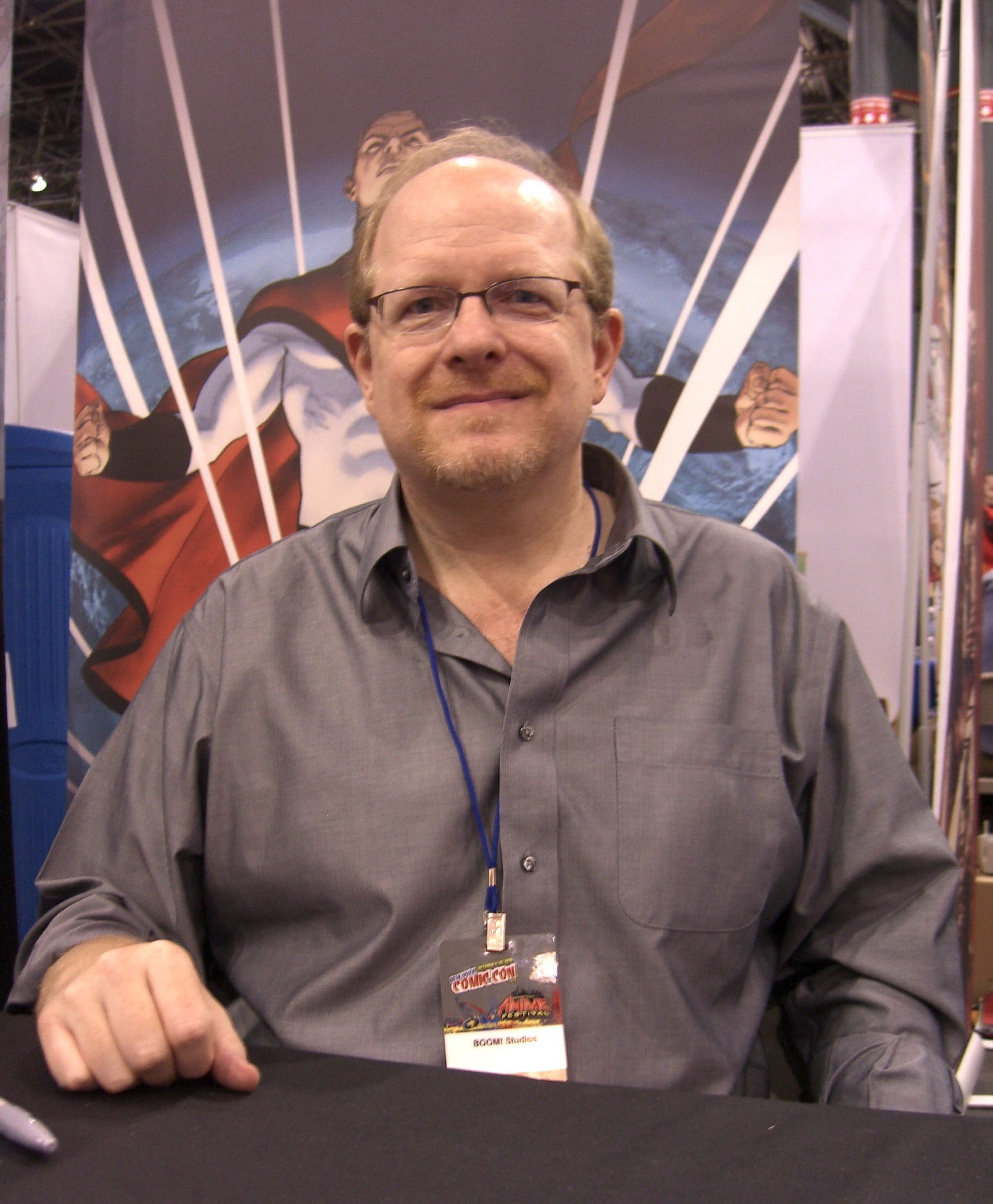 Comic book creator Mark Waid, at the New York Comic Convention in Manhattan, October 10, 2010. Photo by Luigi Novi. This photo may be used, modified and published for any purpose, only if a easily visible credit to the photographer is placed near the photo in each instance in which it is used. (See licensing information below.) Publication of this photo without this proper attribution constitute copyright infringement. For more information on my photos, you can contact me here.